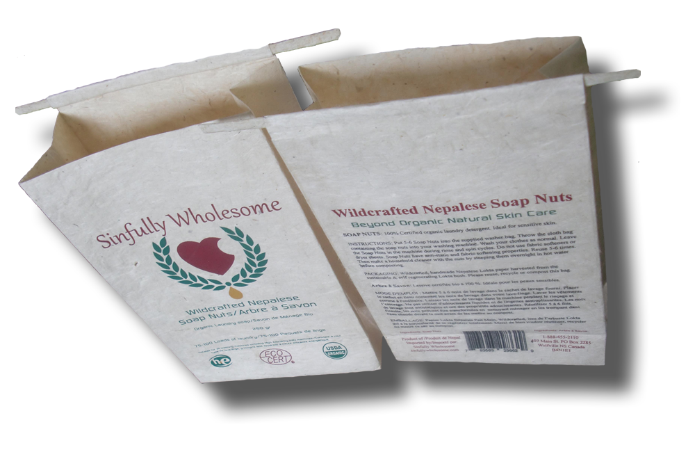 Packaging made with handmade Nepalese Lokta paper